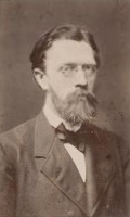 Plate 12 Photograph album of German and Austrian scientists. Carl Weeber, Pforzheim; Friedrich von Hellwald, Cannstadt; Dr. Adolf Richter, Pforzheim; Buhrke, Magdeburg; Dr. Ahrendts, Schmiedeberg; W. Breitenbach, Unna; Rinke, Düsseldorf (Dusseldorf); A. Schwartz, Oldenburg; N. Tafel, Adrianopel (Adrianople).